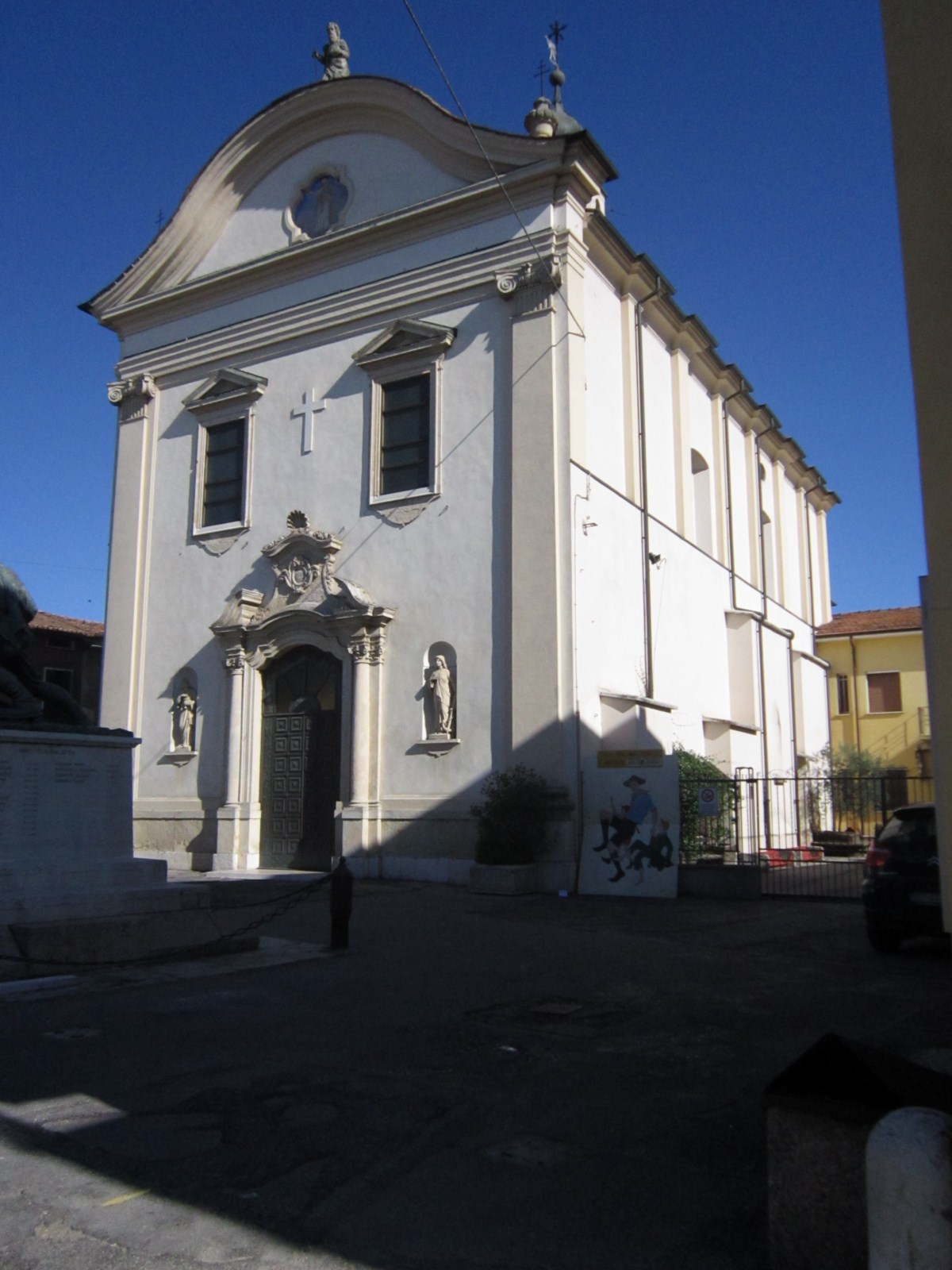 S.S. Peter and Paul church in Mozzecane